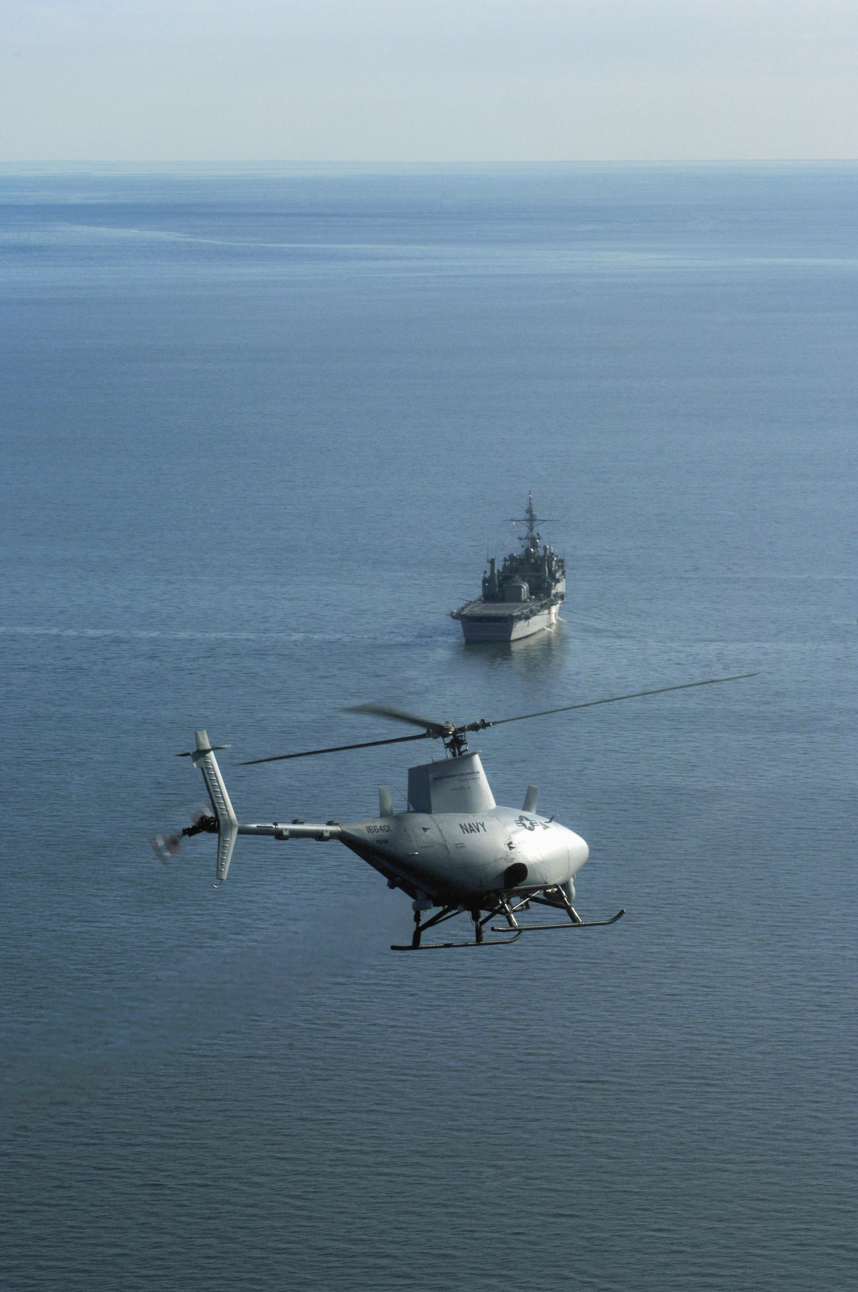 US Navy photo of Fire Scout unmanned helicopter preparing to land on the USS Nashville during sea trials, 2006. The US Navy (USN) RQ-8A Tactical Unmanned Aerial Vehicle (VTUAV) System Fire Scout, prepares for the first autonomous landing aboard the US Navy (USN) Austin Class: Amphibious Transport Dock, USS NASHVILLE (LPD 13), while the ship is underway in the Atlantic Ocean. With an on-station endurance of over four hours, the Fire Scout system is capable of continuous operations, providing coverage at 110 nautical miles from the LAUNCH site.